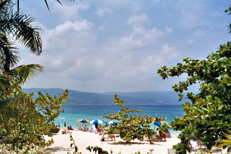 Doctors Cave Beach, Montego Bay, Jamaica. Picture taken by me.